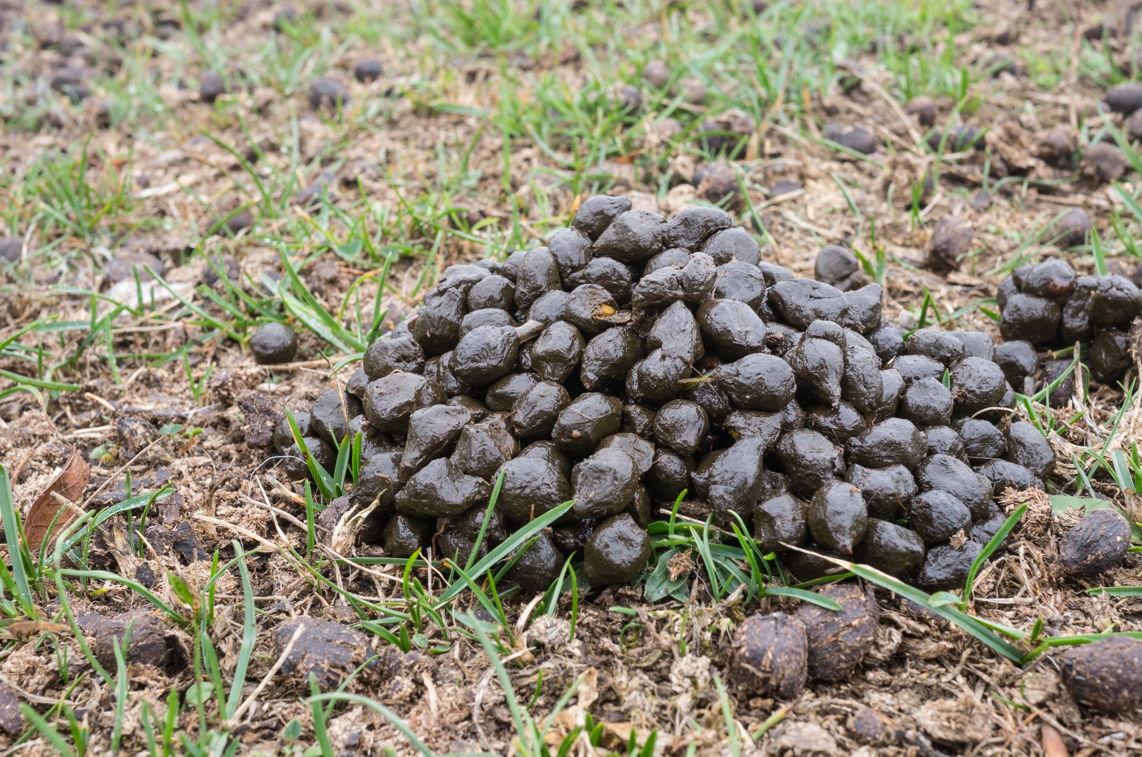 Sheep feces (Latxa sheep race) in the Entzia mountain range. Álava, Basque Country, Spain